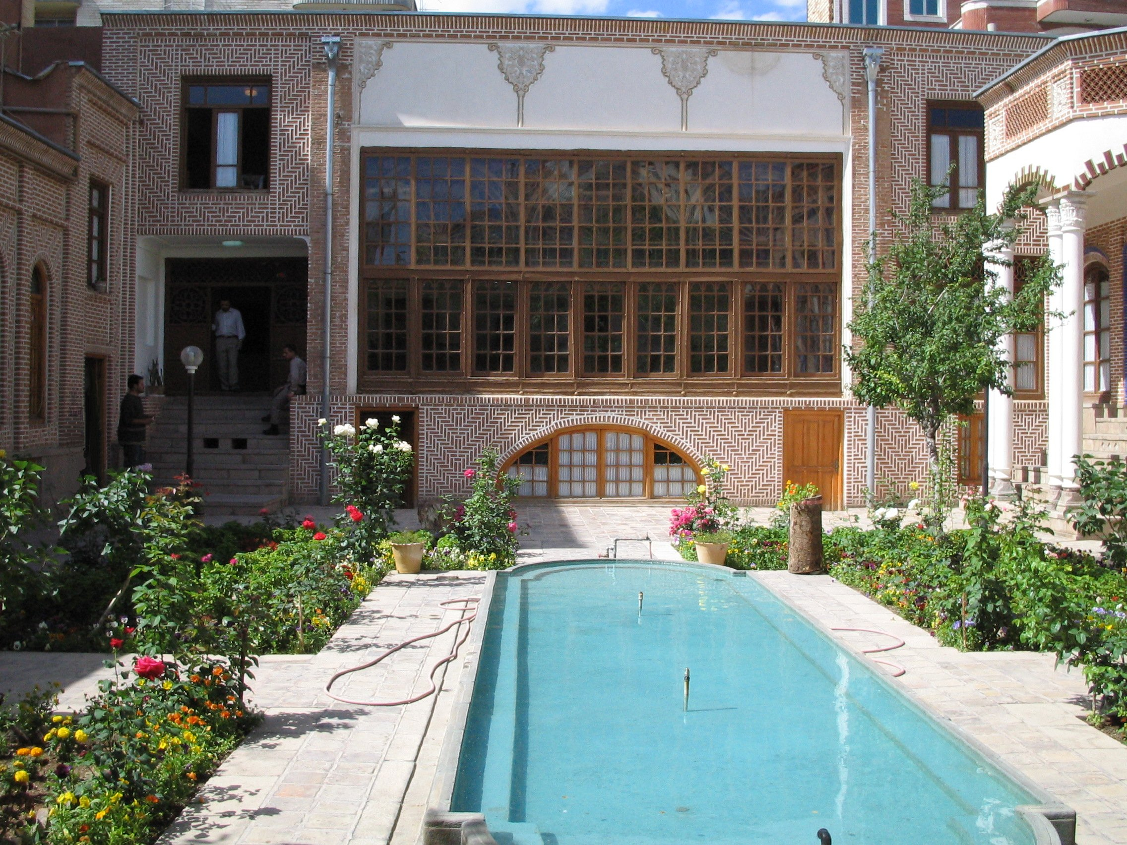 Garden courtyard and facade of the Clocks and Weights Museum — in Tabriz, Iran.